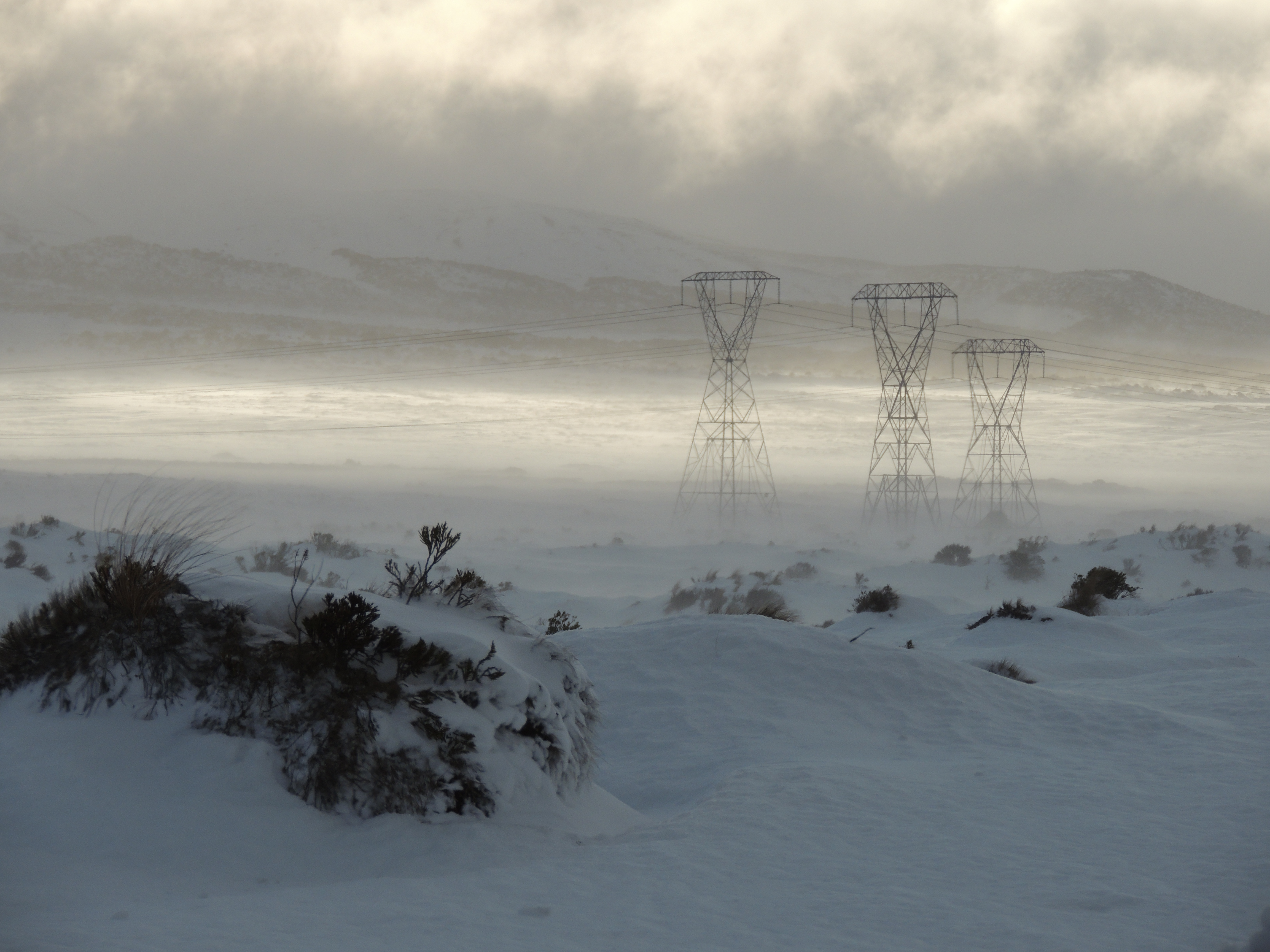 Desert Road, Central Plateau, NZ